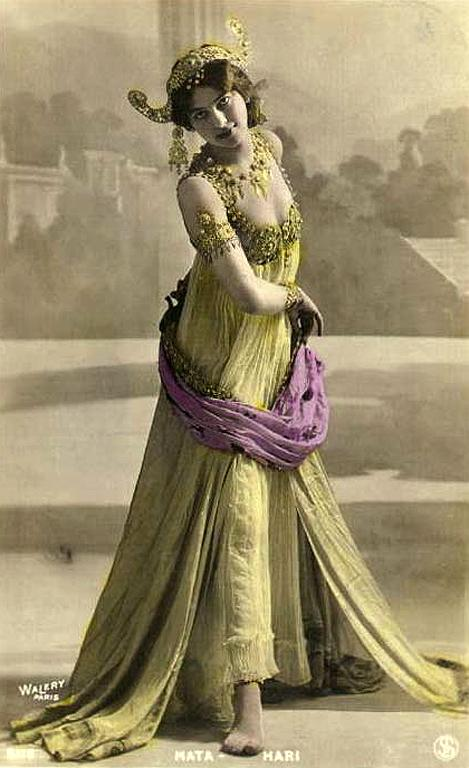 Postcard of Mata Hari in Paris